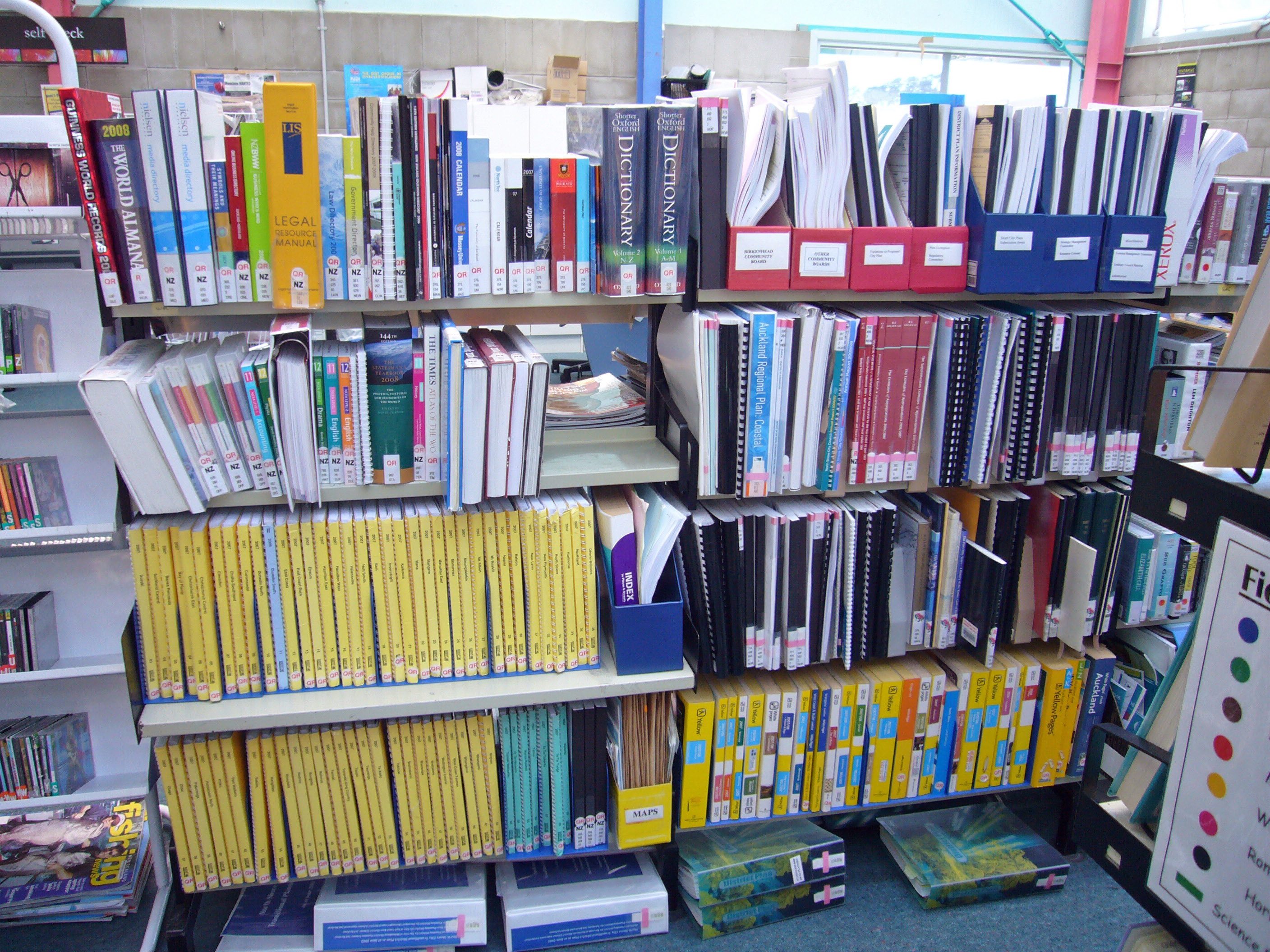 Birkenhead Public Library. Quick Reference collection and Official Publications.